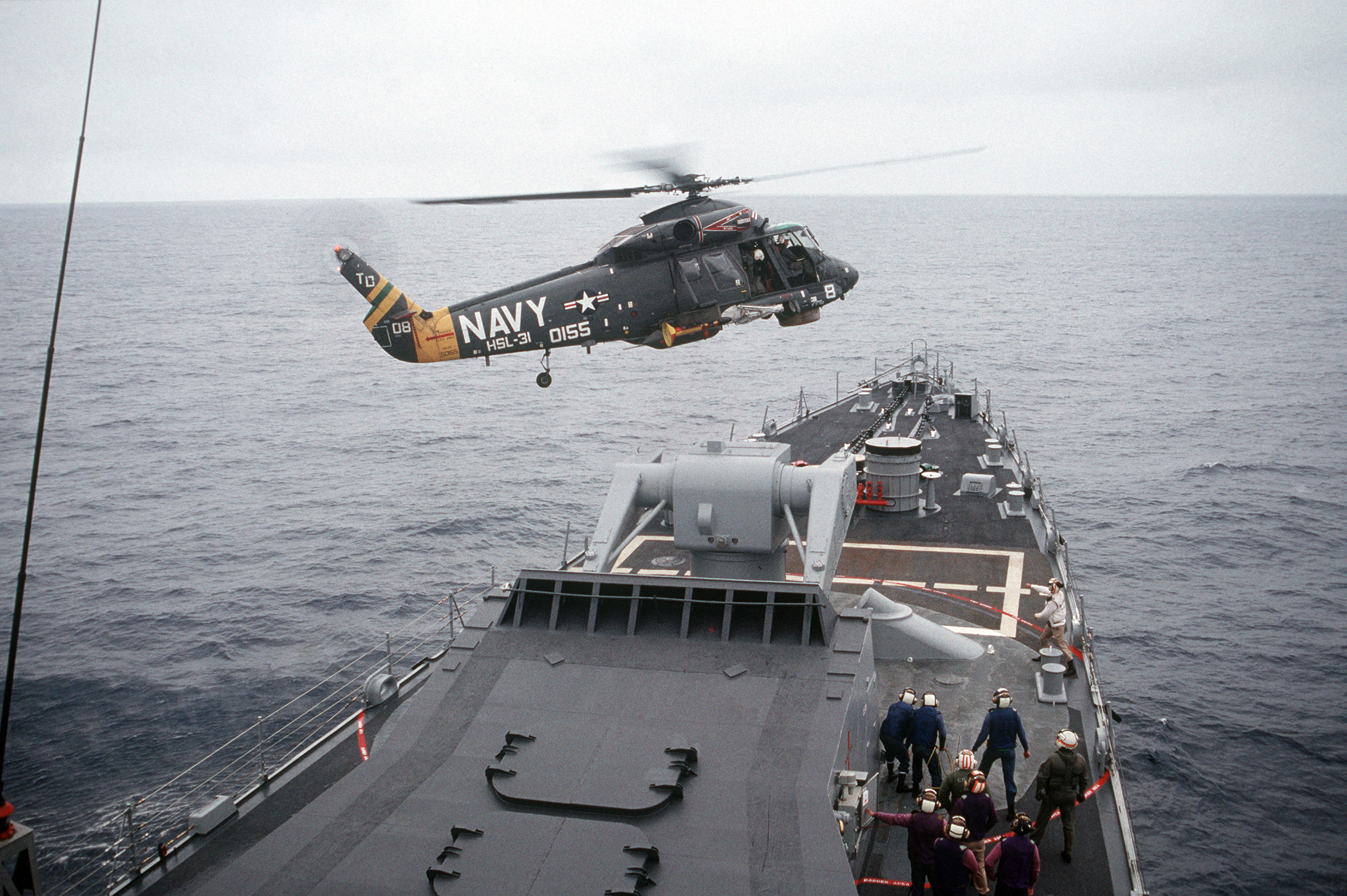 A U.S. Navy Kaman SH-2F Seasprite (BuNo 150155) of Light Helicopter Anti-submarine Squadron 31 (HSL-31) hovers over the guided missile cruiser USS Jouett (CG-29) off the Southern California coast, ready to practice removing a man from the deck of the ship, in June 1989.